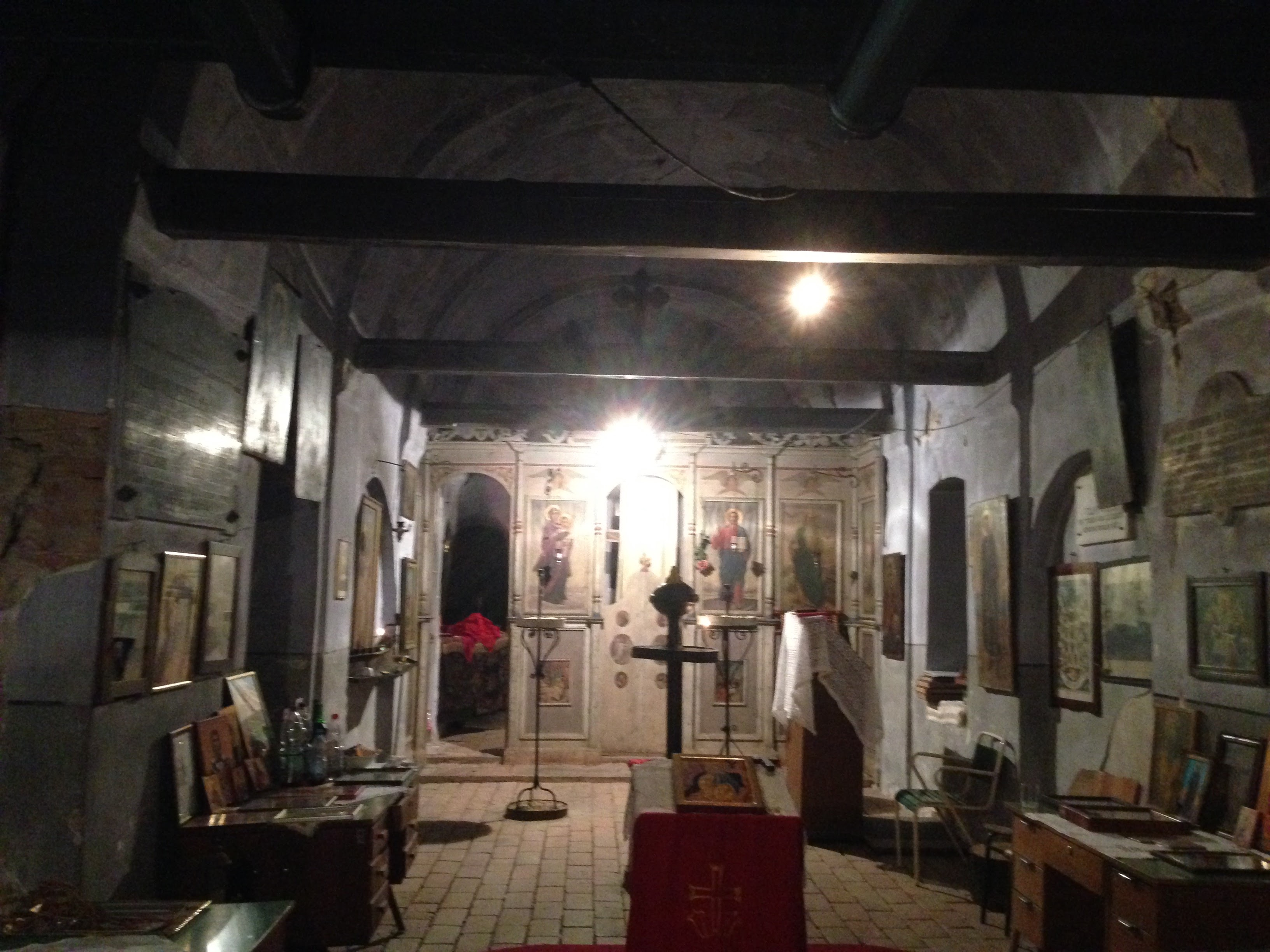 Church of St. Elijah in Sićevo, Serbia